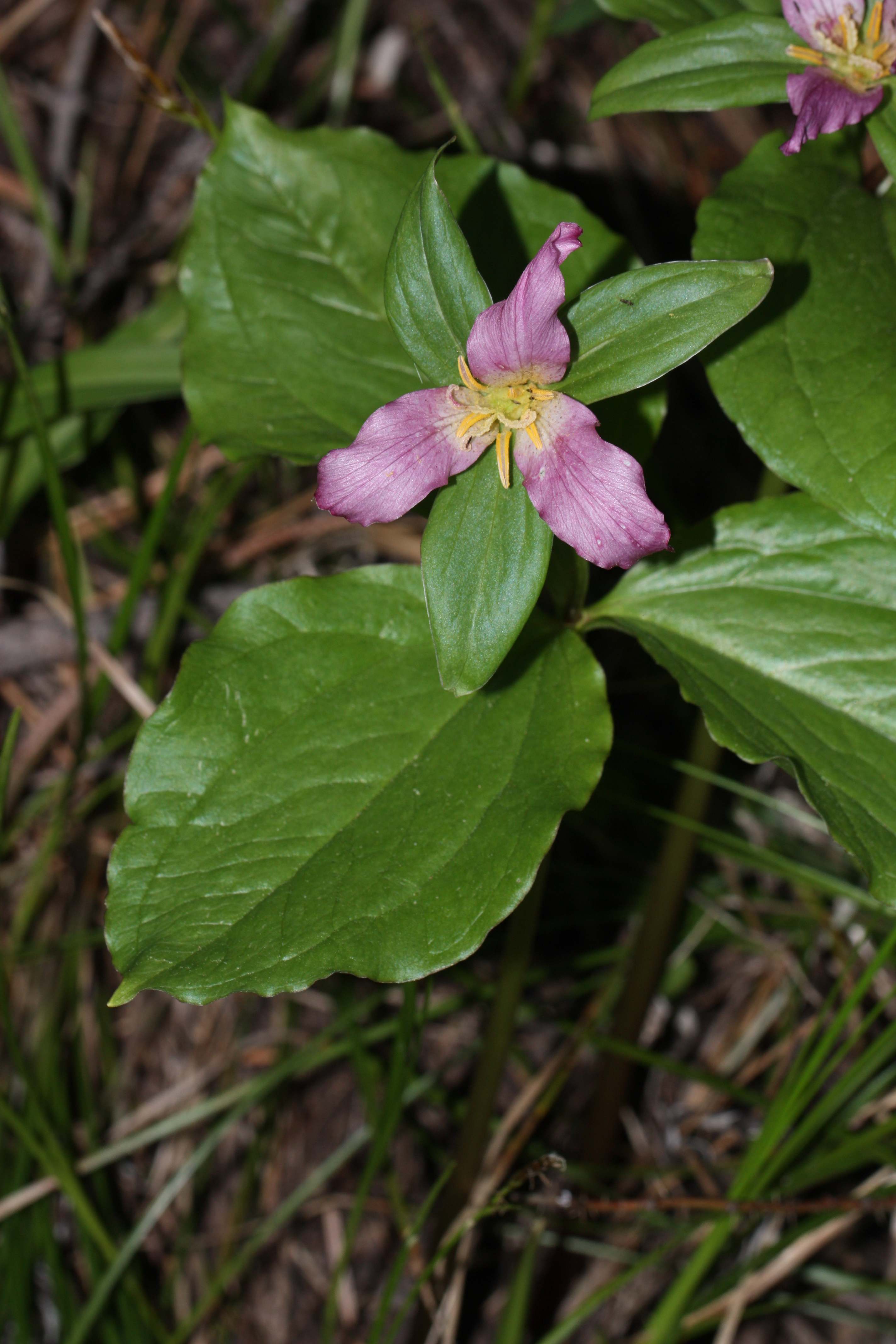 Pacific Trillium, Wakerobin Viewpoint location: Squilchuck_Trail #1200 to Clara Lake (5040 feet), Colockum State Wildlife Area Viewpoint elevation: 1451 meter (4759 ft) Location source: Garmin GPSmap 60CSx Location Datum: WGS84